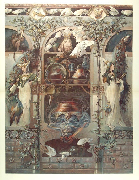 Lithography by Anton Seder